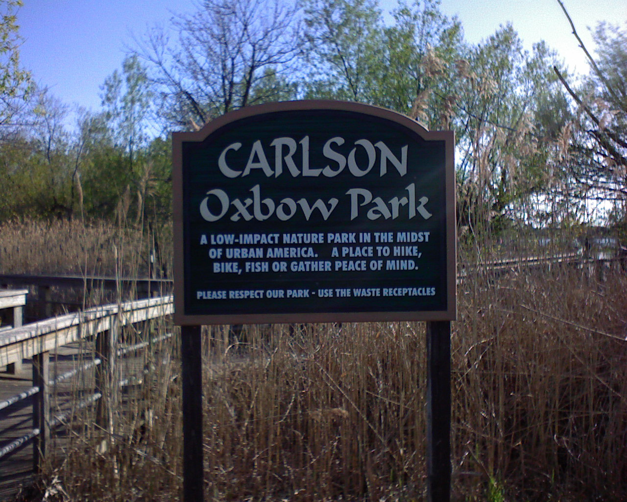 The front sign of Carlson Oxbow Park. Picture was taken in 2010.